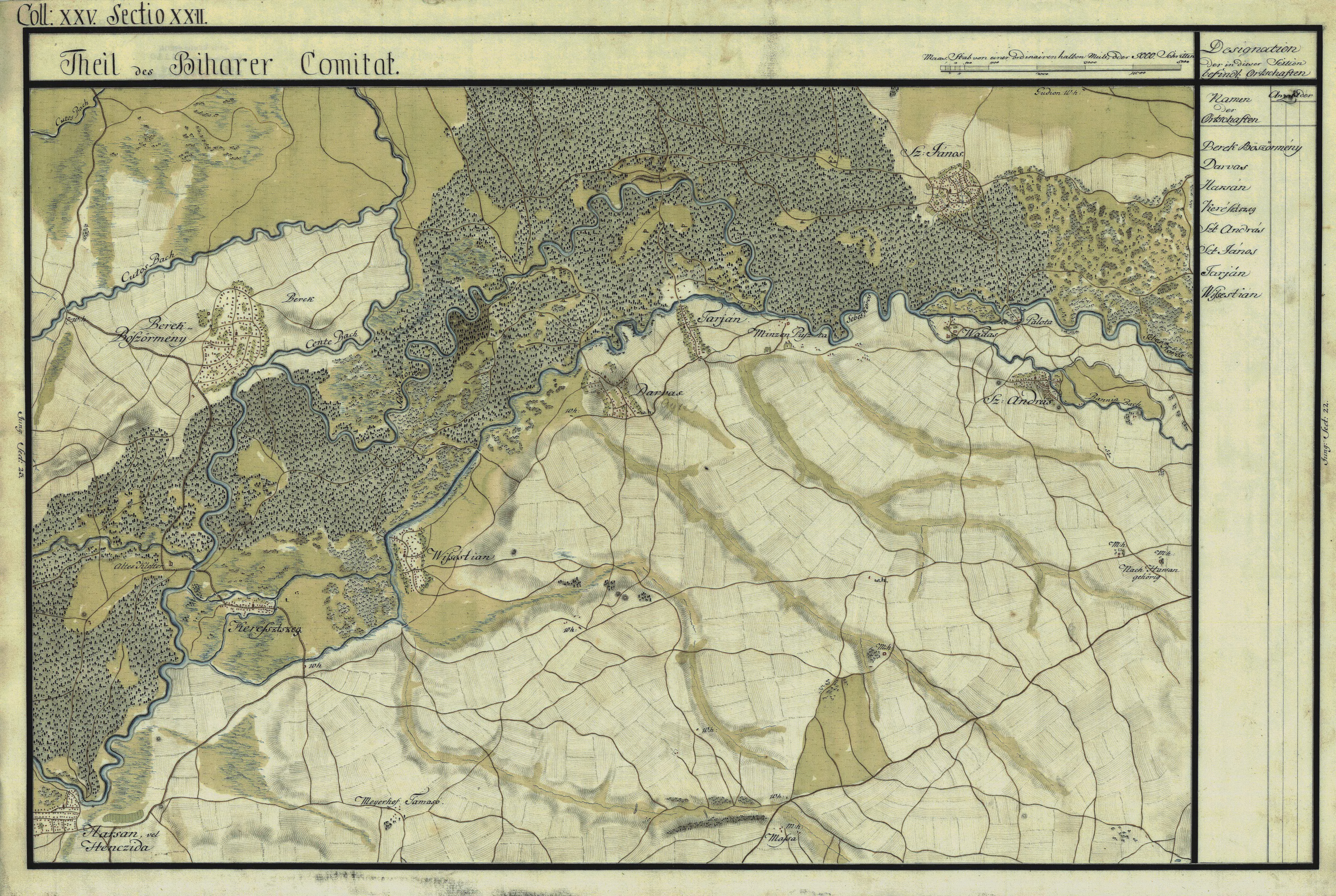 Bihor County, 1782-85. Josephinische Landesaufnahme pg.25-22